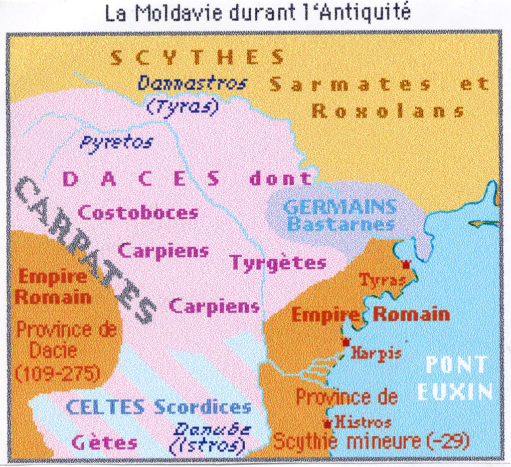 Map of Moldova/Moldavia during antiquity